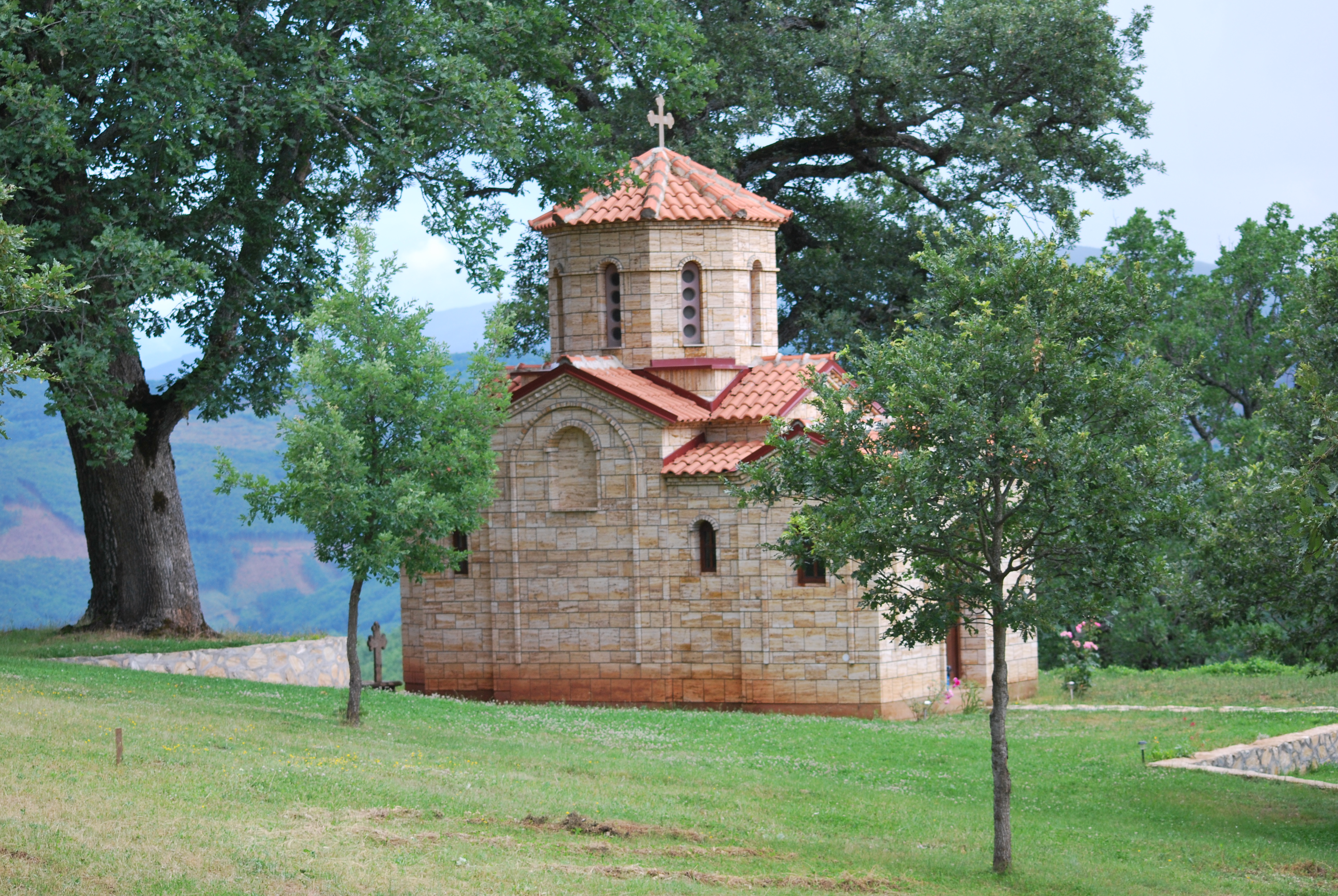 St. Athanasius Church, the main church in Sopotnica Monastery in Sopotnica, Macedonia